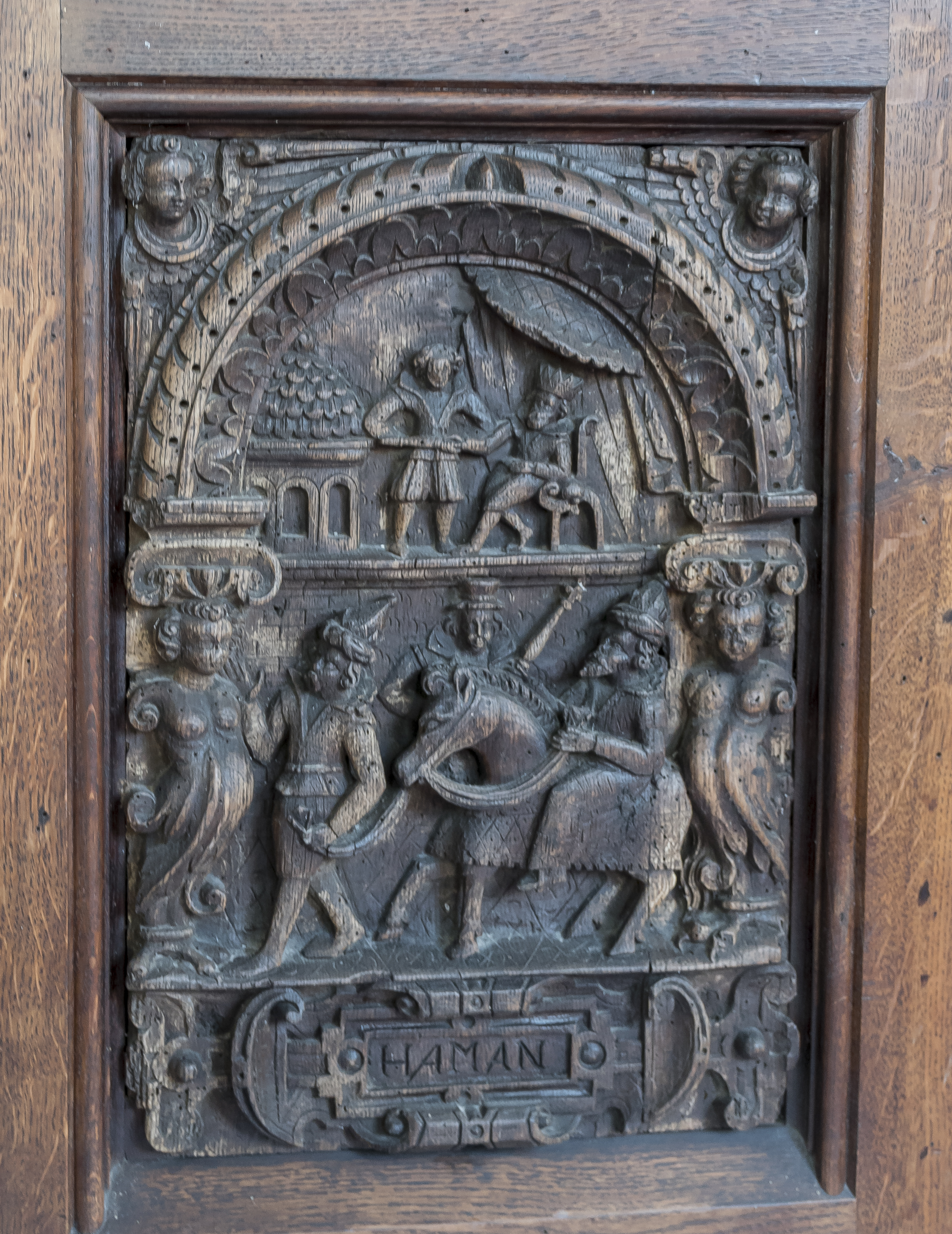 "Elaborately carved in relief, with 8 figures and 8 cherubs in ornamental arcading, they tell the story of Esther and Haman in scenes in which 19 vivid figures take part. We see King Ahasuerus sitting under the canopy of his tent, and a man behind him with a halberd. Esther, who kneels before him, is attended by two maidens, and has come to use her influence on behalf of the Jews. We see Haman summoned to advise the king how to deal with a man he wishes to honour, and Haman, thinking the honour is to fall on his own shoulders, suggesting that the royal crown and raiment be put on the man and that he should ride through the streets on the king’s horse. The next scene shows Haman, with drooping countenance, leading the king’s horse, on which rides his enemy Mordecai in the royal apparel. In the last picture the king and Esther are sitting at the banquet with Haman. Ahasuerus is handing a cup to Haman, who now looks mightily pleased at the honour shown him in being the only guest at the feast, little suspecting that soon he is to be hanged on the gallows he has prepared for Mordecai. The gallows is in the background, with Haman’s tiny figure hanging from it" Arthur Mee 1938.